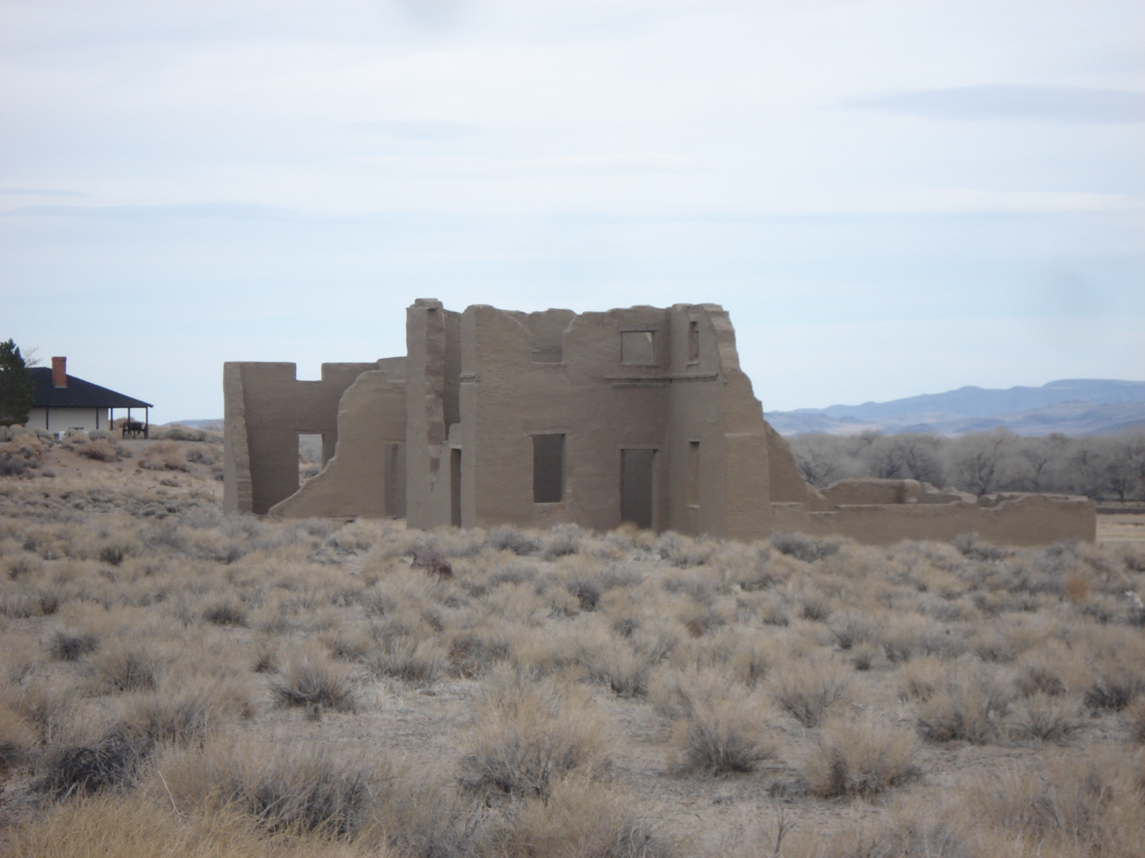 Ruins at Fort Churchill State Historic Park — in Lyon County, Nevada, United States.